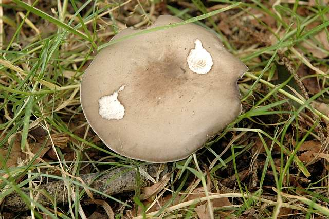 Melanoleuca polioleuca from Commanster, Belgian High Ardennes .